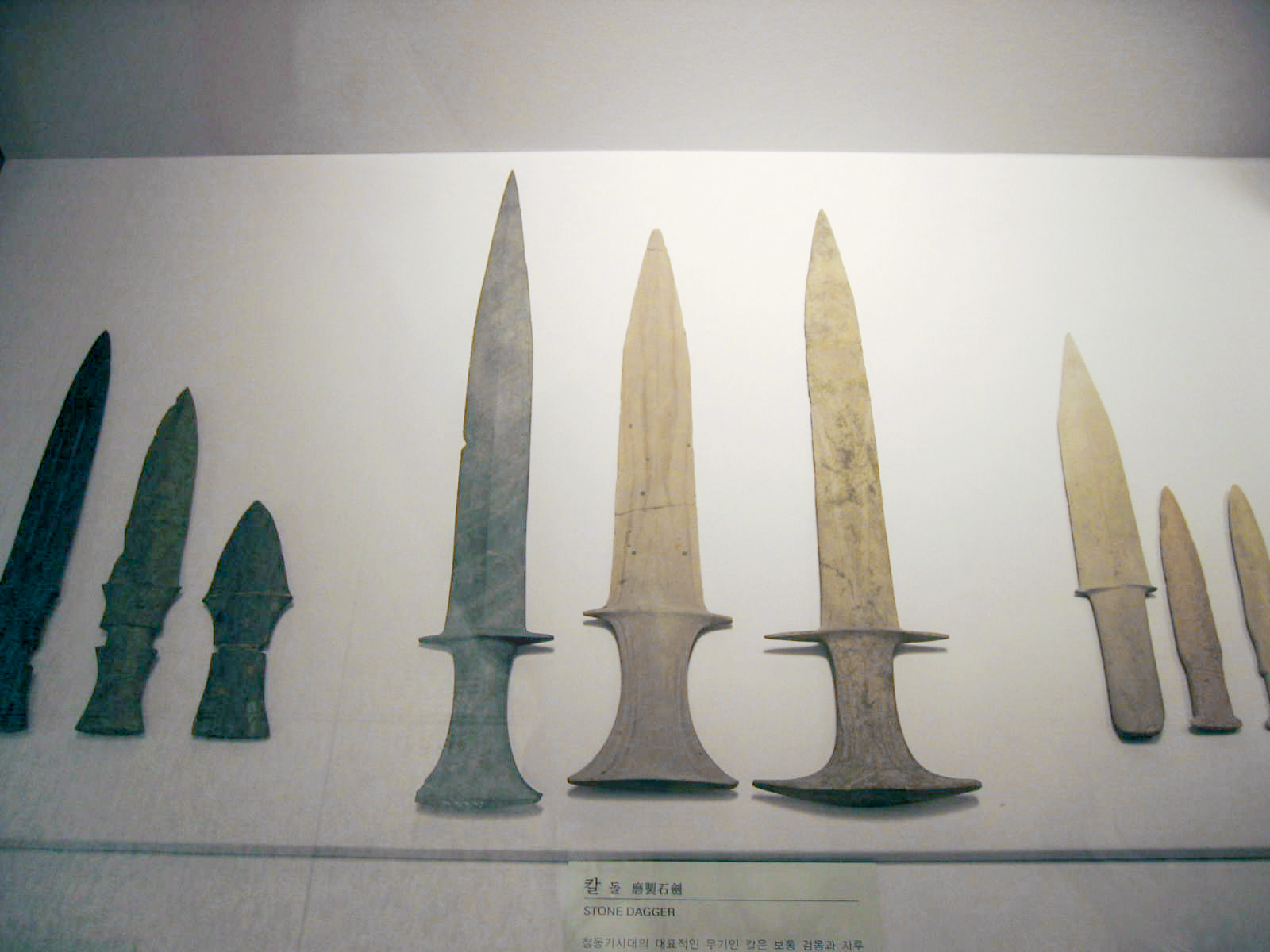 Stone daggers, Bronze Age, Korea. Taken from the National Museum of Korea.